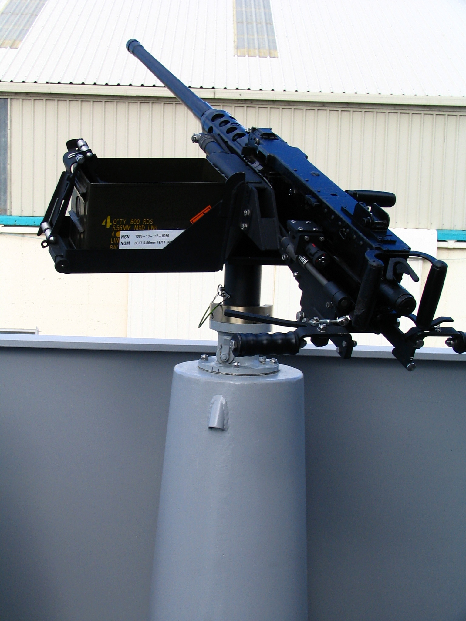 Machine gun of HMNZS Hawea in Dunedin, New Zealand